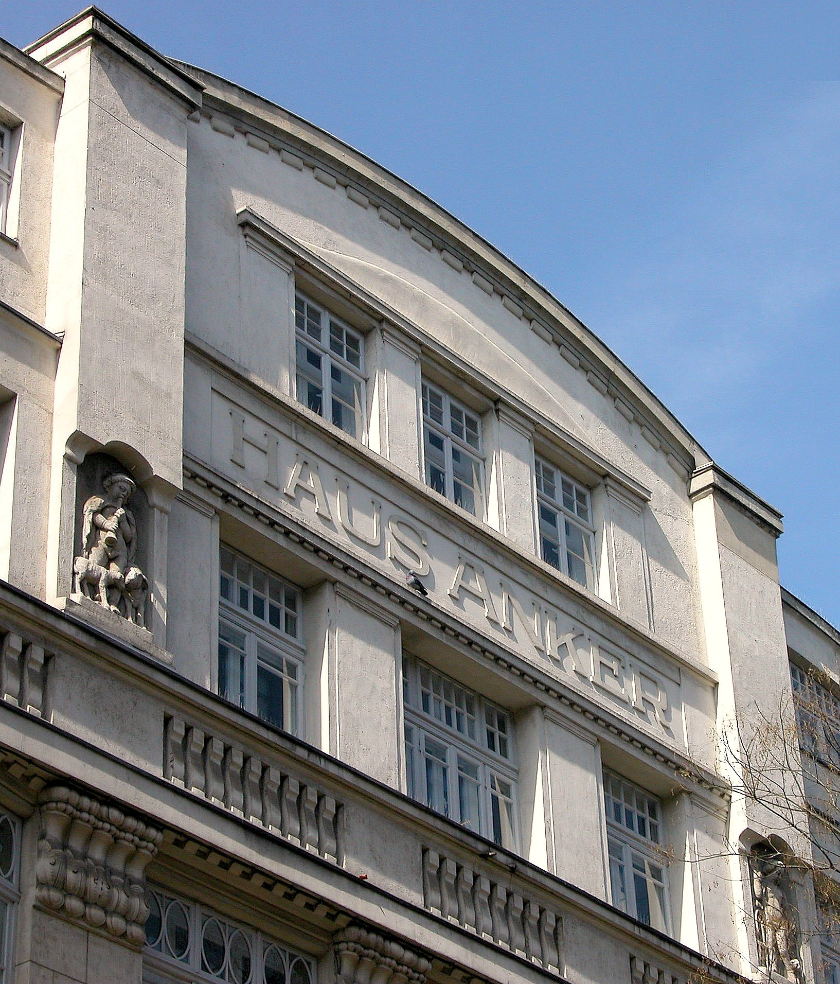 Braunschweig, Germany: “Ancor House” - Inscription.